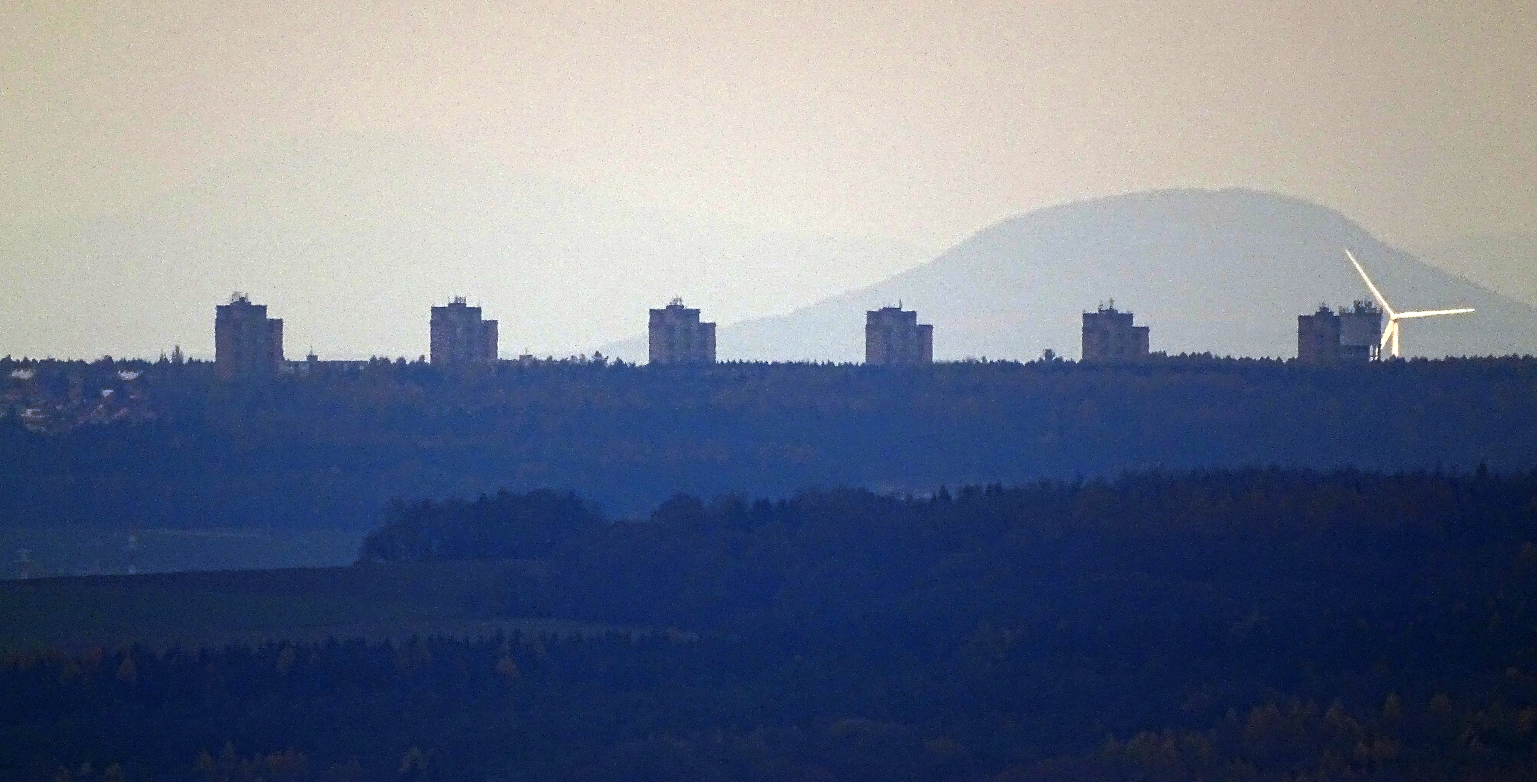 A view from the Máminka tower, Hudlice, Beroun District, Central Bohemian Region, Czechia. Rozdělov Tower Houses, Pchery Wind Farm, Říp hill.